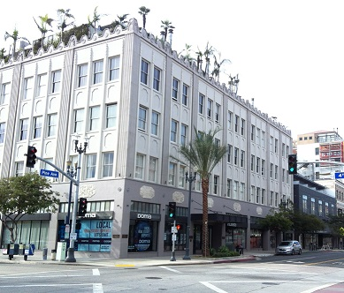 This Long Beach (Calif.) Historic Landmark was formerly known as the Walker's Department Store. It is located at 401-423 Pine Ave. Beach (Calif.) Historic Landmark 16.52.510.